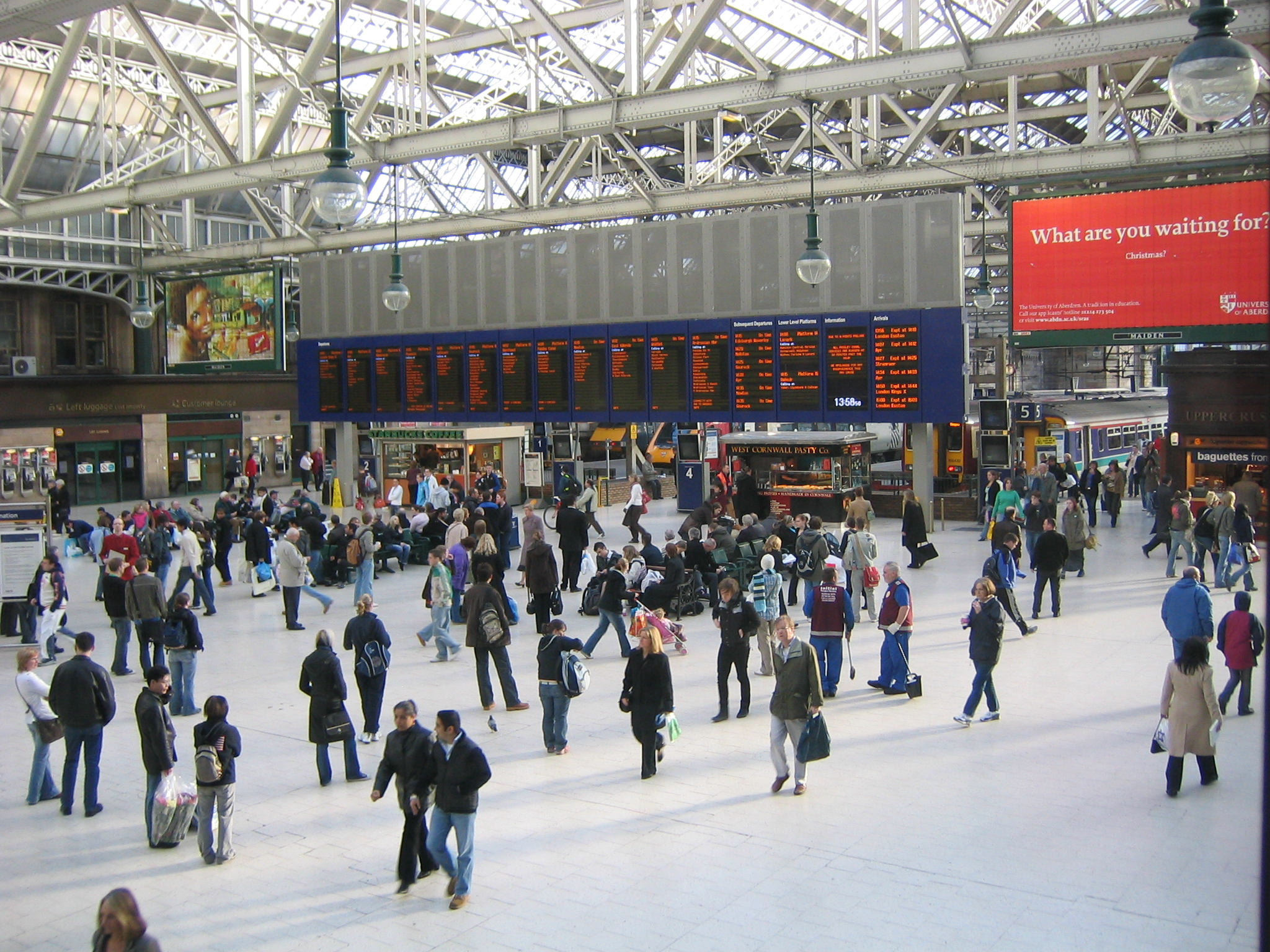 Glasgow Central station, photographed from Yates bar, by User:AlistairMcMillan on November 1 2005.